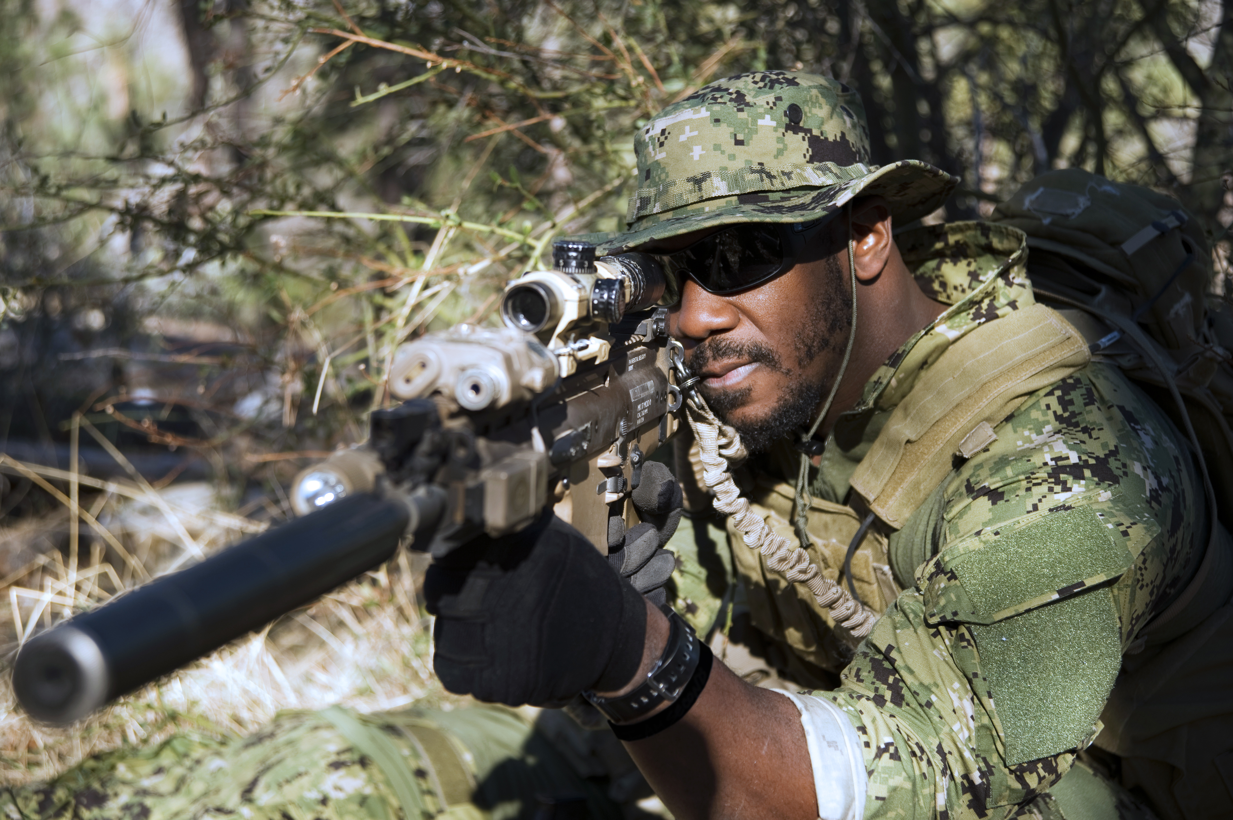 120109-N-OT964- California (09 Jan. 2012) Navy SEALs conduct training on land and in water. U.S. Navy photo by Mass Communication Specialist 2nd Class Martin L. Carey